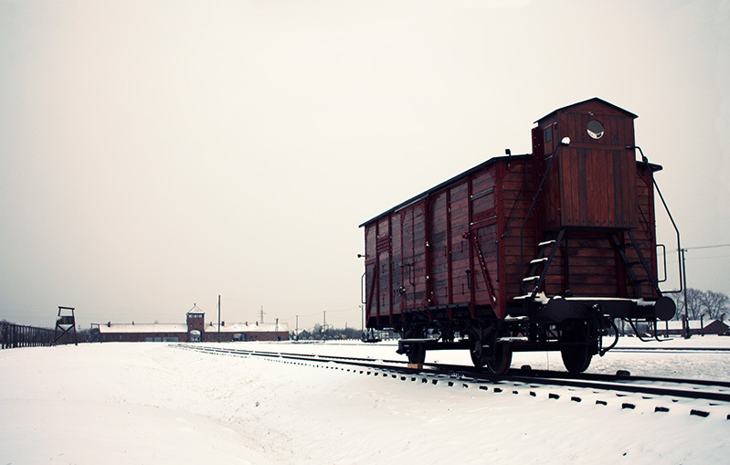 Freight train of the kind used to transport prisoners to Auschwitz. This one stands inside the German extermination camp Auschwitz II-Birkenau, in occupied Poland, at the Judenrampe (Jewish ramp) that operated from May until around October 1944. See "An Original German Train Car at the Birkenau Ramp". Auschwitz-Birkenau Memorial and Museum (14 October 2009). Archived from the original on 25 January 2019.